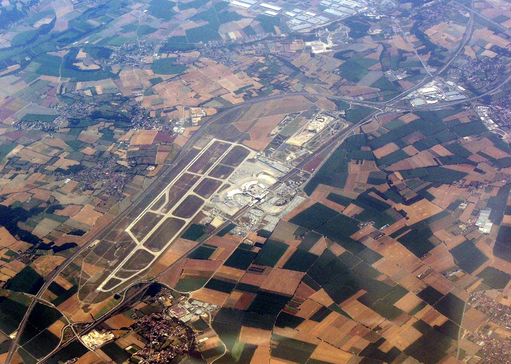 Lyon Airport in July 2006 - flight from Prague to Madrid.